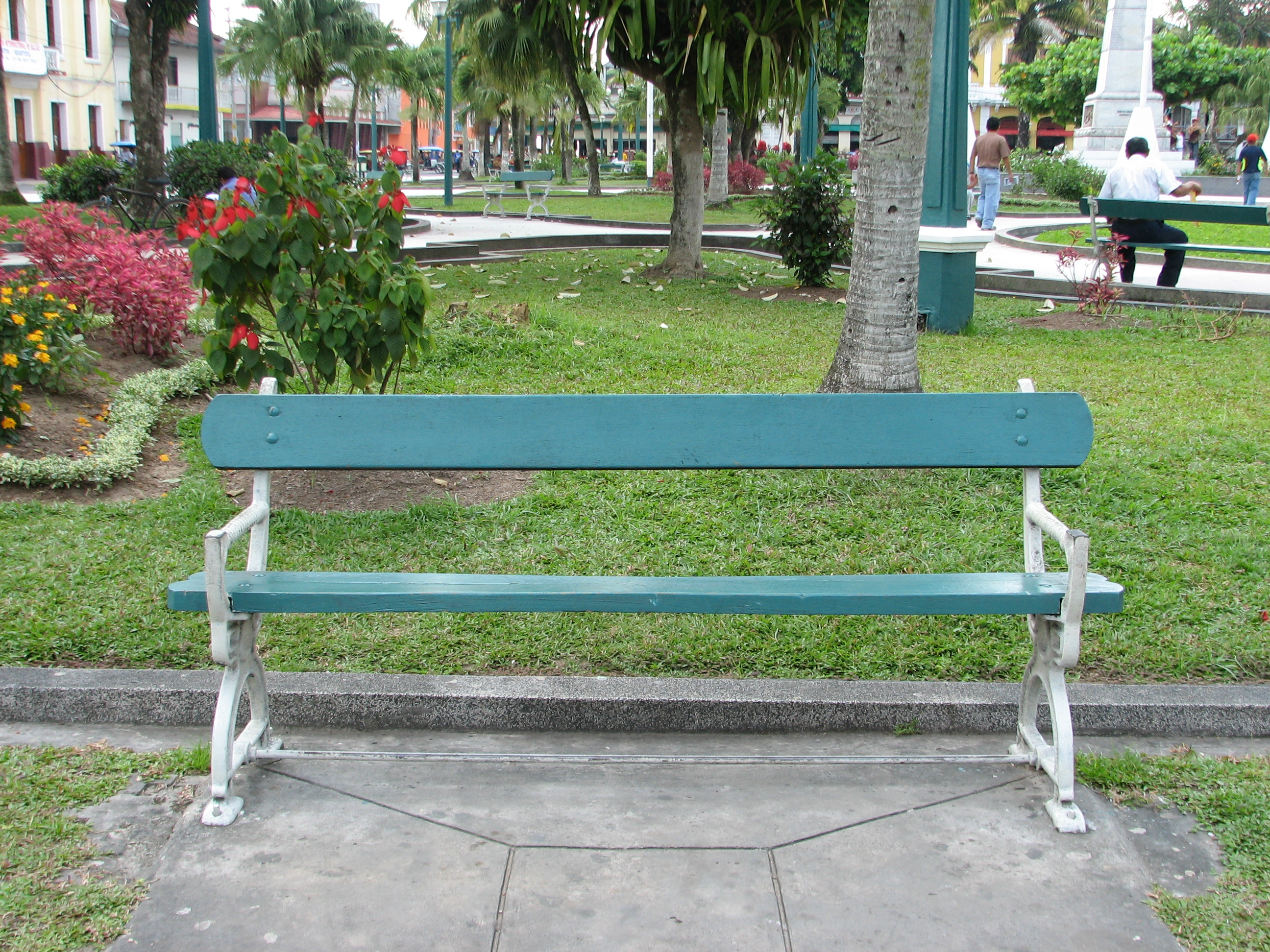 Park bench in the Plaza de Armas in Iquitos — Maynas/Loreto, Perú.